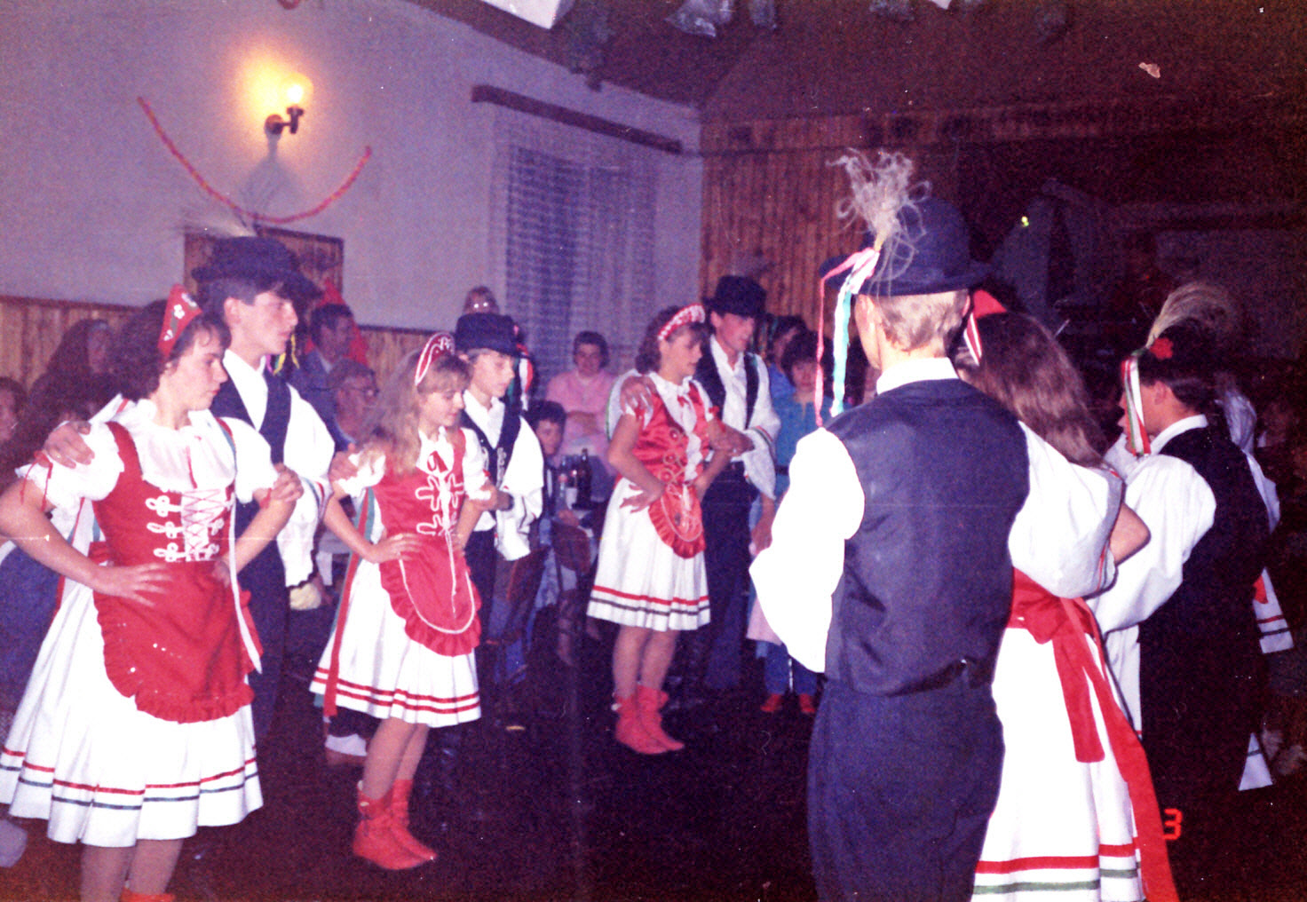 Šušara_Kud_90-tih